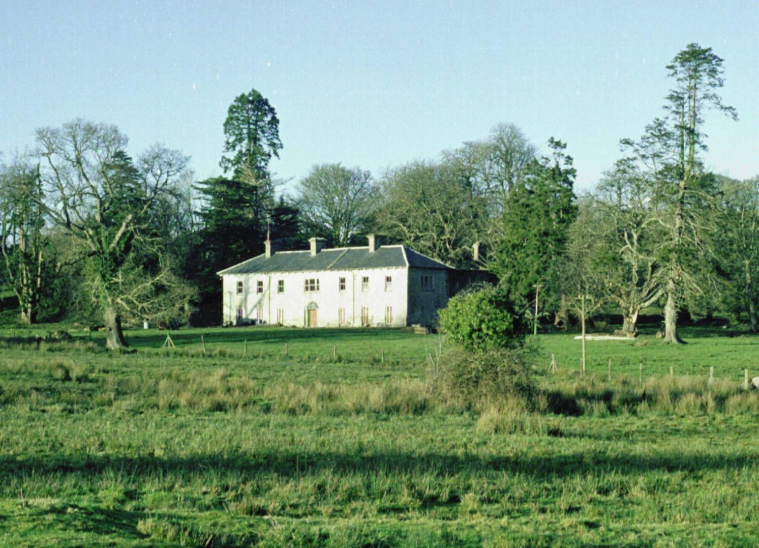 From no later than 1607 to 1913, Alderford House was the seat of the MacDermots Roe of Alderford, Kilronan Parish, County Roscommon, Ireland. The House was substantially renovated in the late 18th century. Photo was taken in 1999.